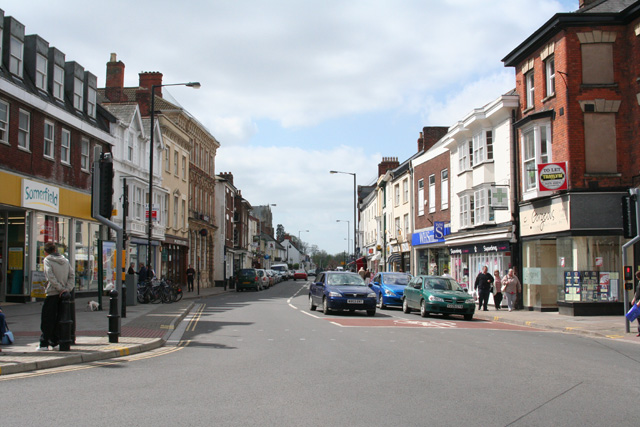 Wellington: Fore Street Looking south west from the end of South Street. Fore Street leads to Rockwell Green and on to Cullompton: this was once the old route to Exeter and the west